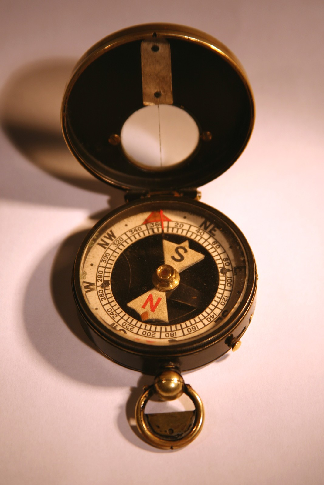 Mr Bamber bought the compass in 1965 from an antique shop in Blackpool. The compass is engraved with the name J Lindsay Brough, 15th Royal Scots. Wanting more information about the compass Mr Bamber contacted the HQ of the Royal Scots Regiment in Edinburgh. He received a letter in 2008 which gave details of the original owner who was 2nd Lieutenant James A Lindsay Brough who was killed on 1st July 1916, the first day of the Battle of the Somme. The Battalion had only just sailed from Southampton to Le Havre in January 1916. James Lindsay Brough has no known grave and is remembered on the Thiepval Memorial. The battalion had suffered terrible casualties in the are of the Scots Redoubt, Heligoland and Peake Trench. They lost 18 officers and 610 men killed, wounded or missing.